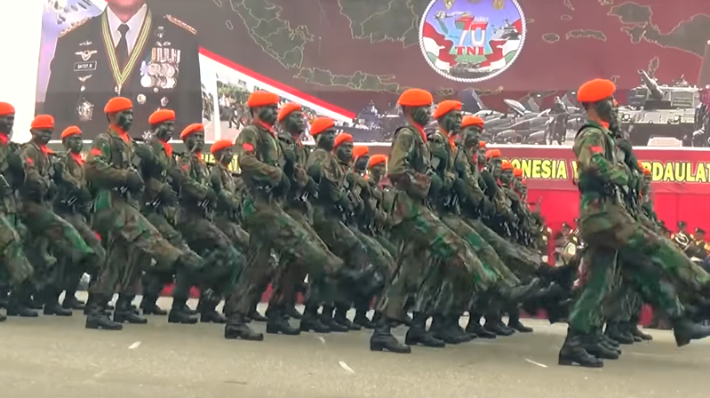 Indonesian Air Force Paskhas troops during parade